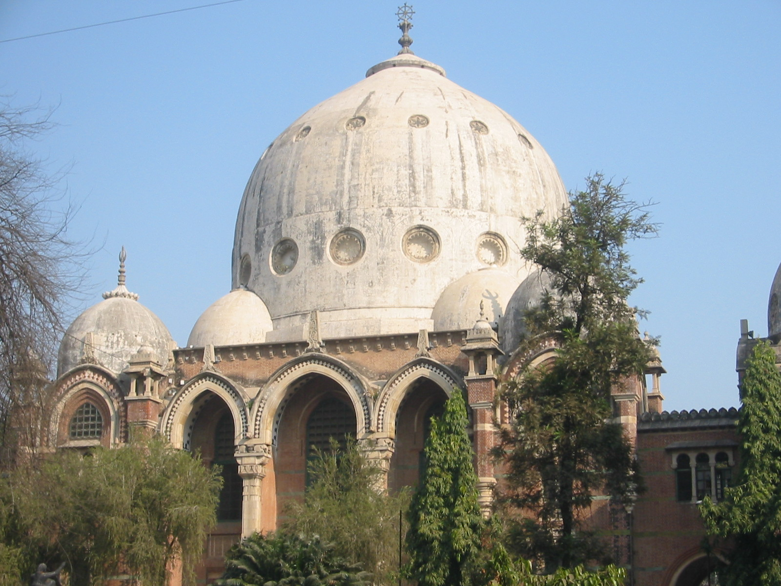 Maharaja Sayajirao University of Baroda at Vadodara, Gujarat, India. January 2007. A monument dedicated to education and knowledge, a cultural get-together, a place where people weave up their dreams & learn how to make it big, the faculty of arts restored by the archeological society of India in 2000-2001 has the second largest dome in India after the Gol Goombaj of Bijapur.